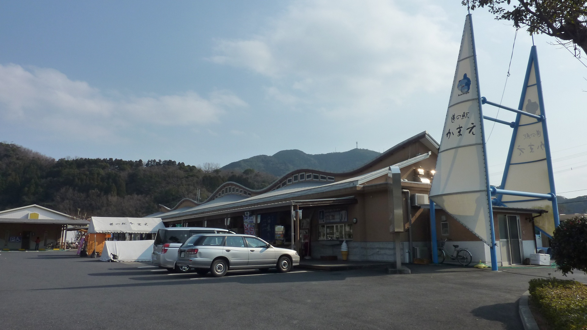 The Michinoeki Kamae is located in Kamae, Saiki City, Oita, Japan (National Route 388)